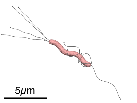 Structure of Helicobacter pylori without annotation